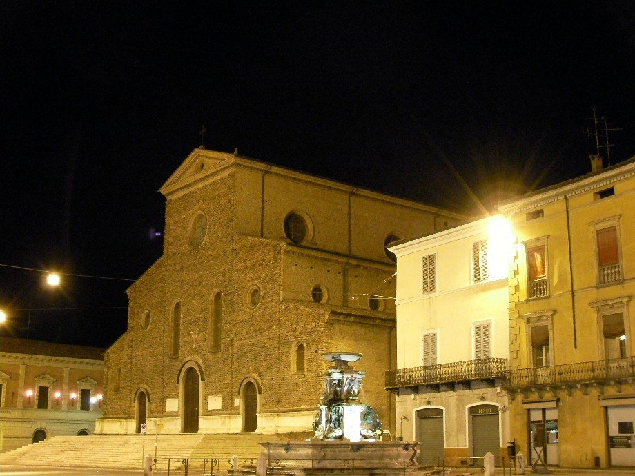 The cathedral of Faenza at night